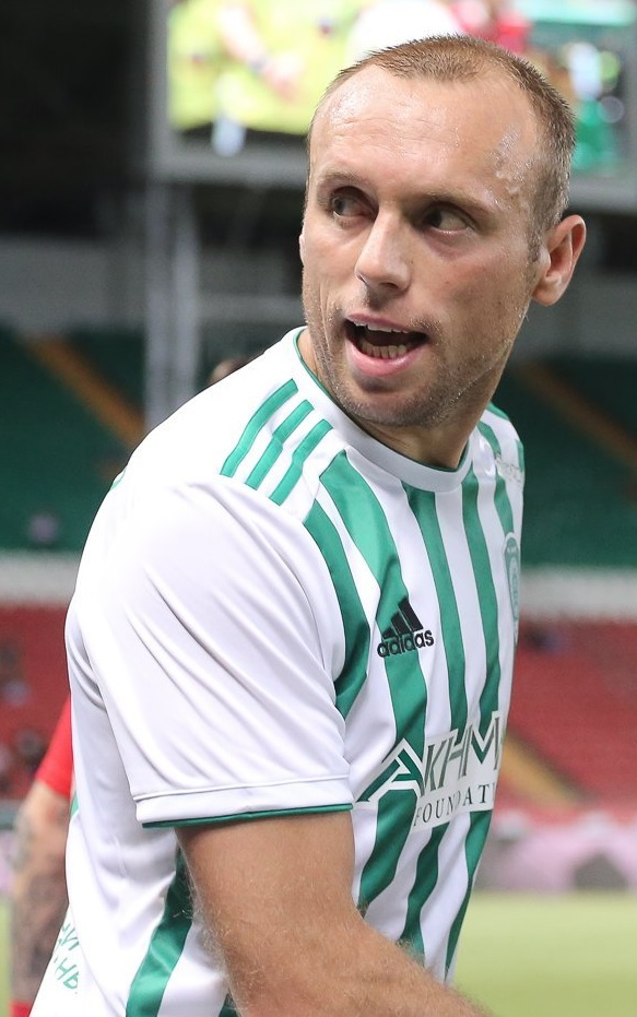 Denis Glushakov with FC Akhmat Grozny in a game against FC Spartak Moscow.